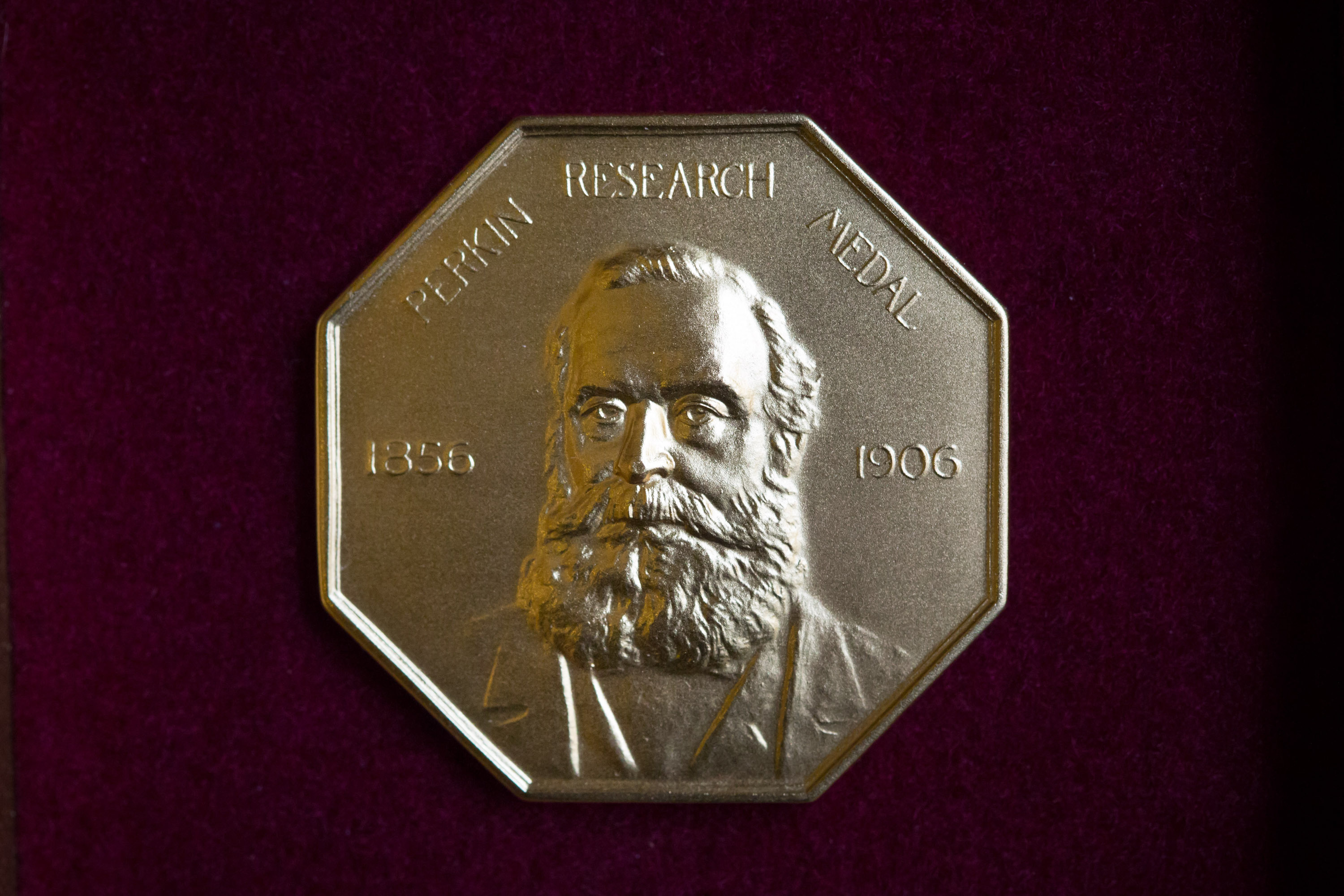 Photograph of the Perkin Medal, Science History Institute, Philadelphia, PA, USA. The Perkin Medal was first awarded in 1906 to commemorate the 50th anniversary of the discovery of mauveine, the world's first synthetic aniline dye, by Sir William Henry Perkin, an English chemist.